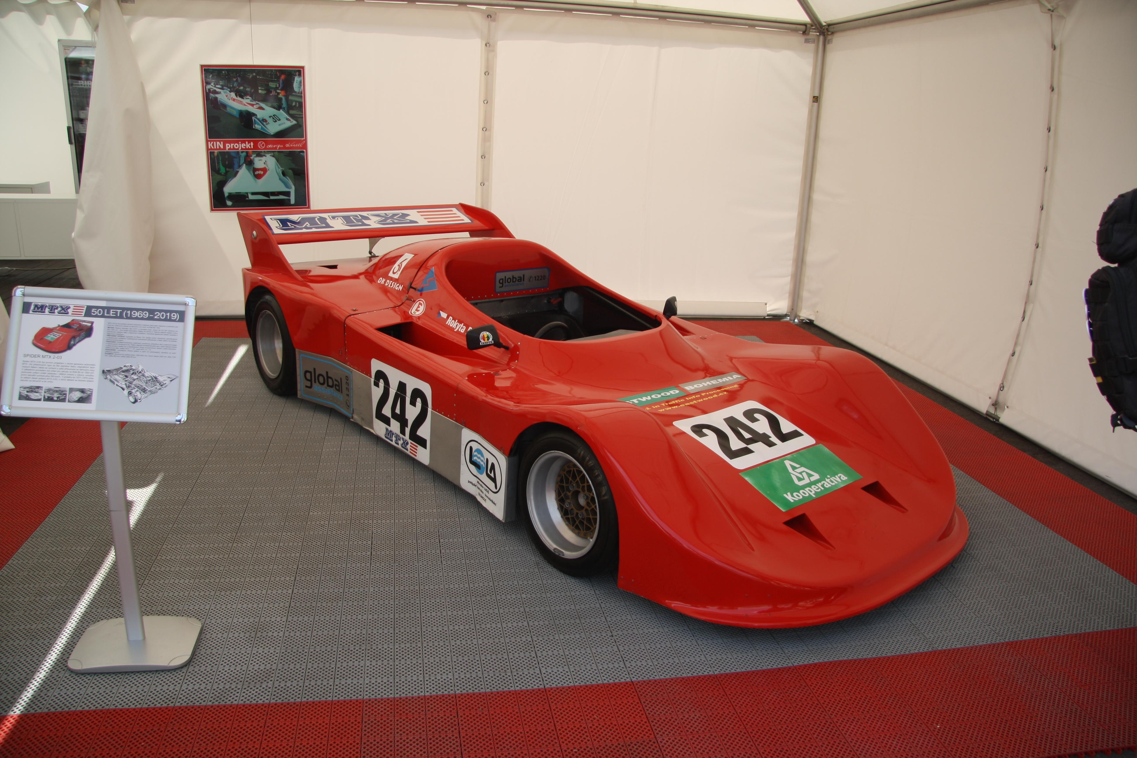 Spider MTX 2-03 at Legendy 2018 in Prague.